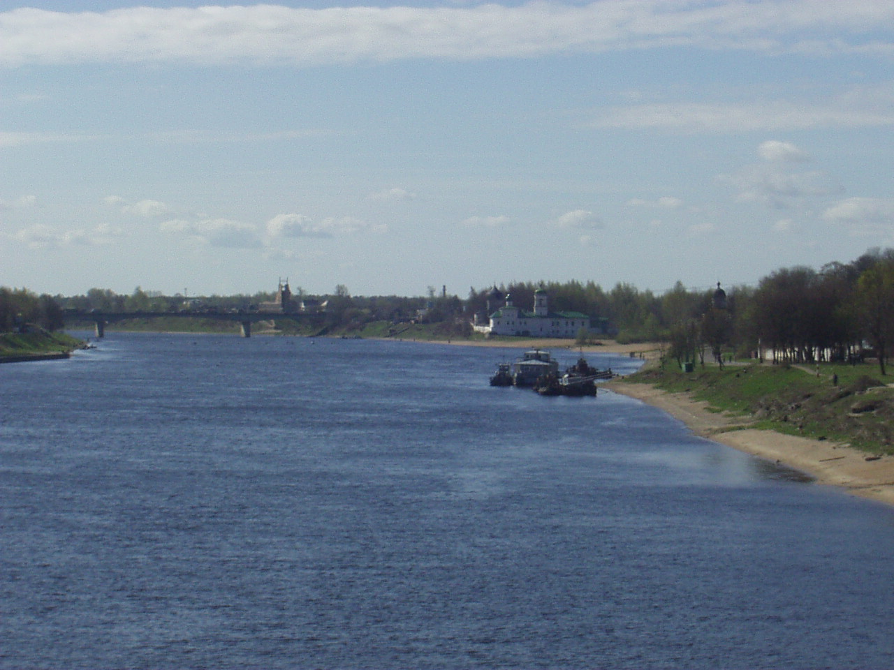 Velikaya river and Mirizhsky monastery in Pskov, Russia